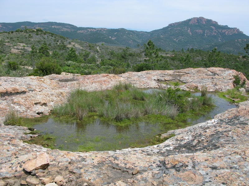 Temporary rock pool on a ryolith lava bed, Barre de Roussivau (Estérel range, Provence)